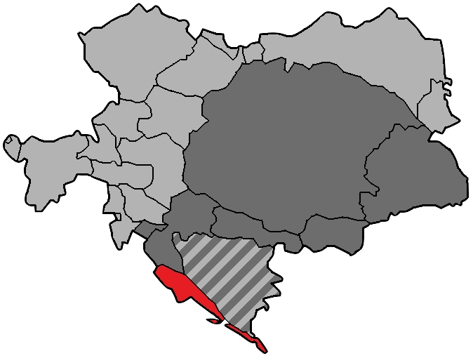 Map of Austria-Hungary